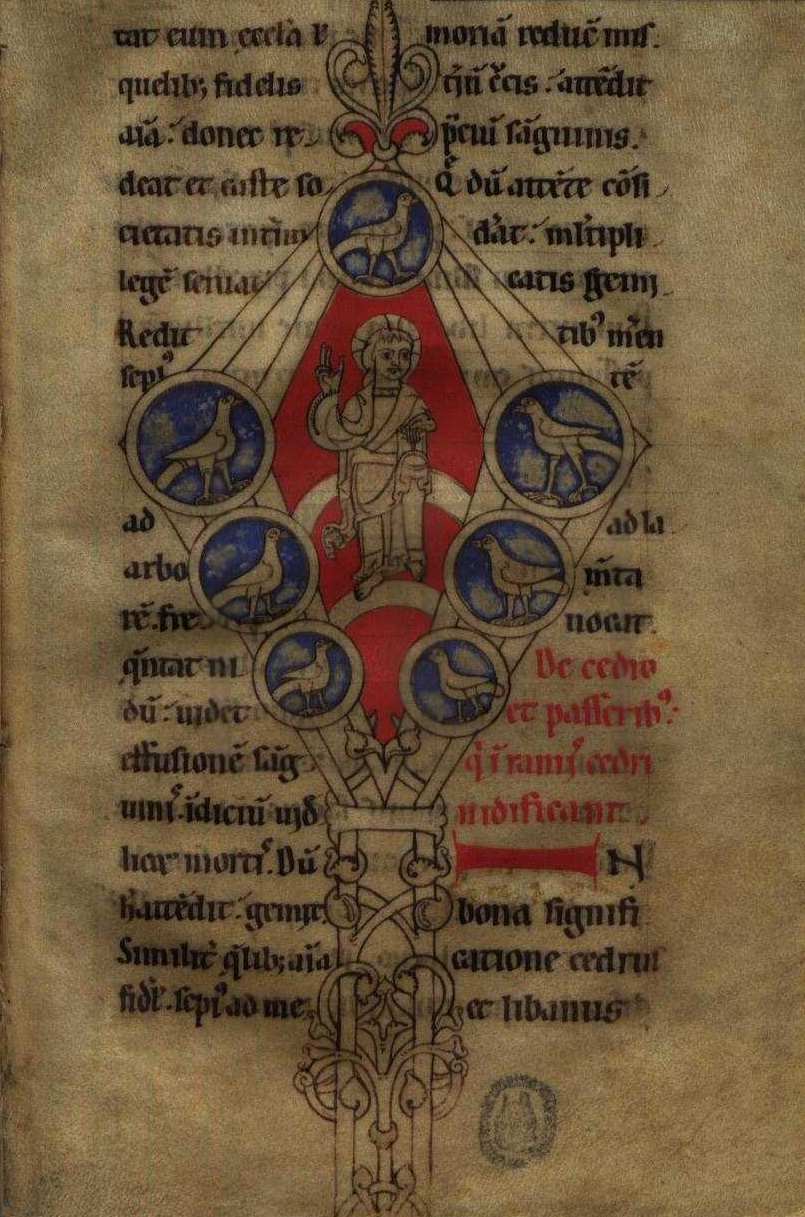 Livro das Aves: the Cedar